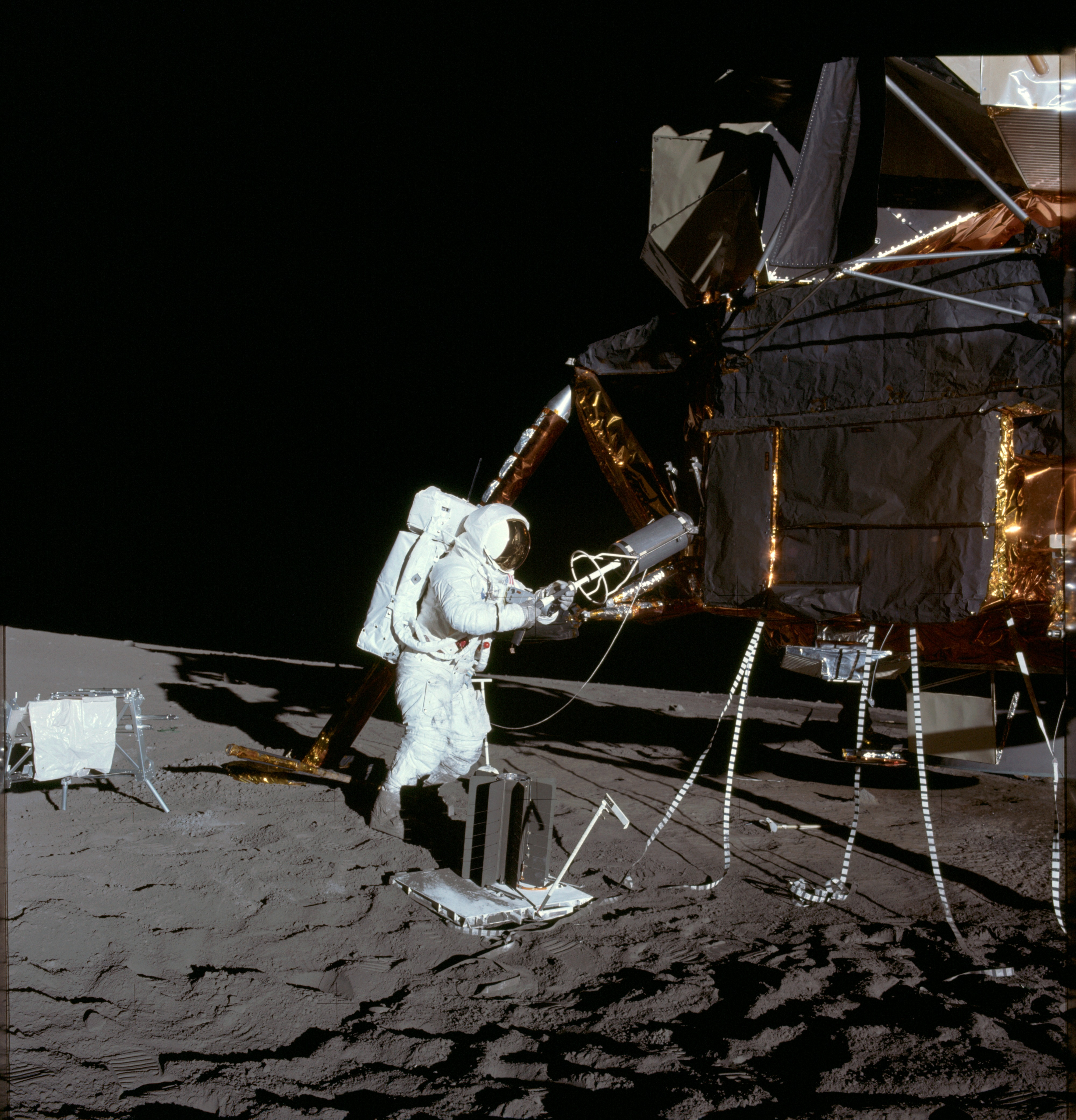 Astronaut Alan L. Bean from Apollo 12, put the Plutonium 238Pu Fuel from the Lunar Module into the SNAP 27 RTG.